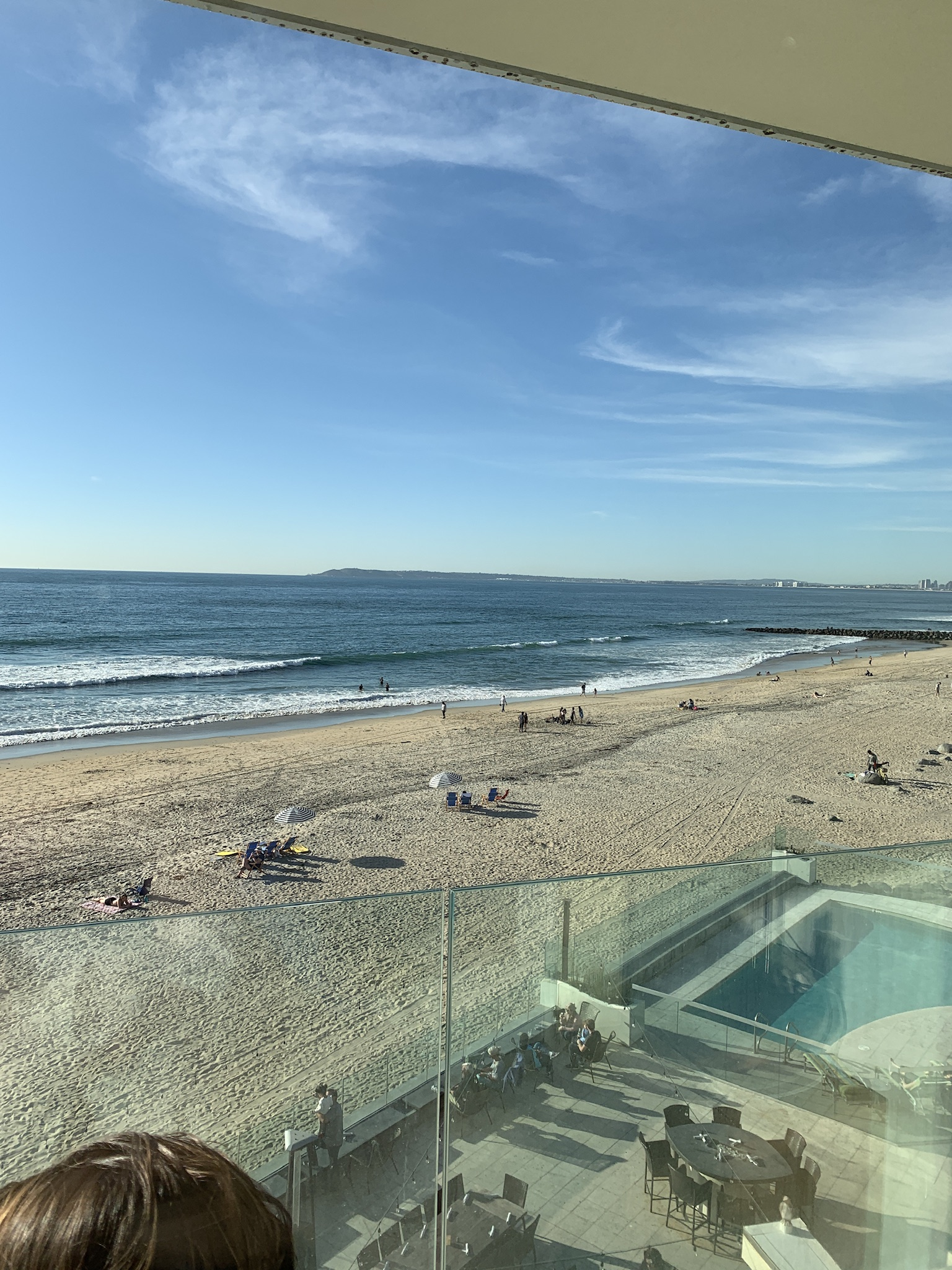 Imperial Beach and San Diego skyline in the background.